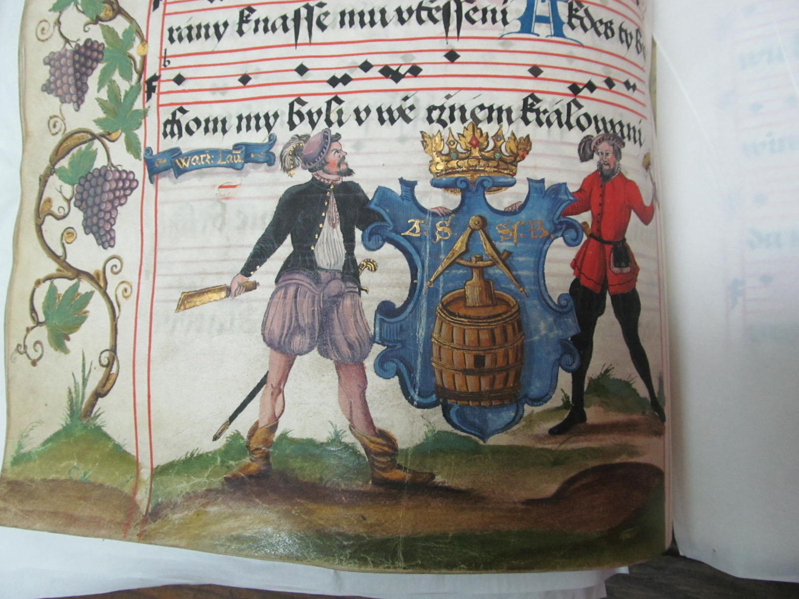 Wine-grower and barrel-maker painted in the hymnal of Louny town from 1563